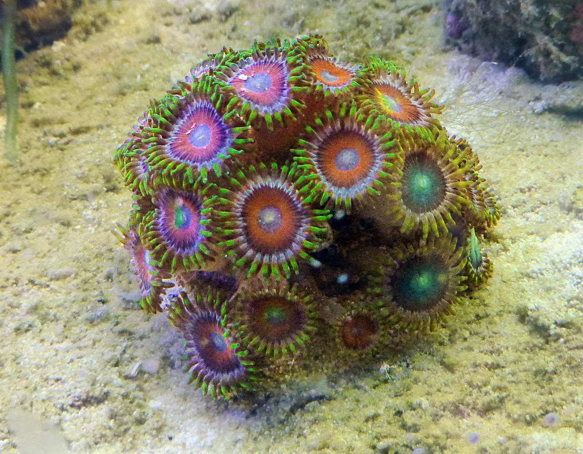 A colony of "dragon eye" coral, Zoanthus sp. Taken right after the power came back on in a 75 gallon, deep sand bed tank, with a Panasonic ZS20. Photoshopped for clarity.